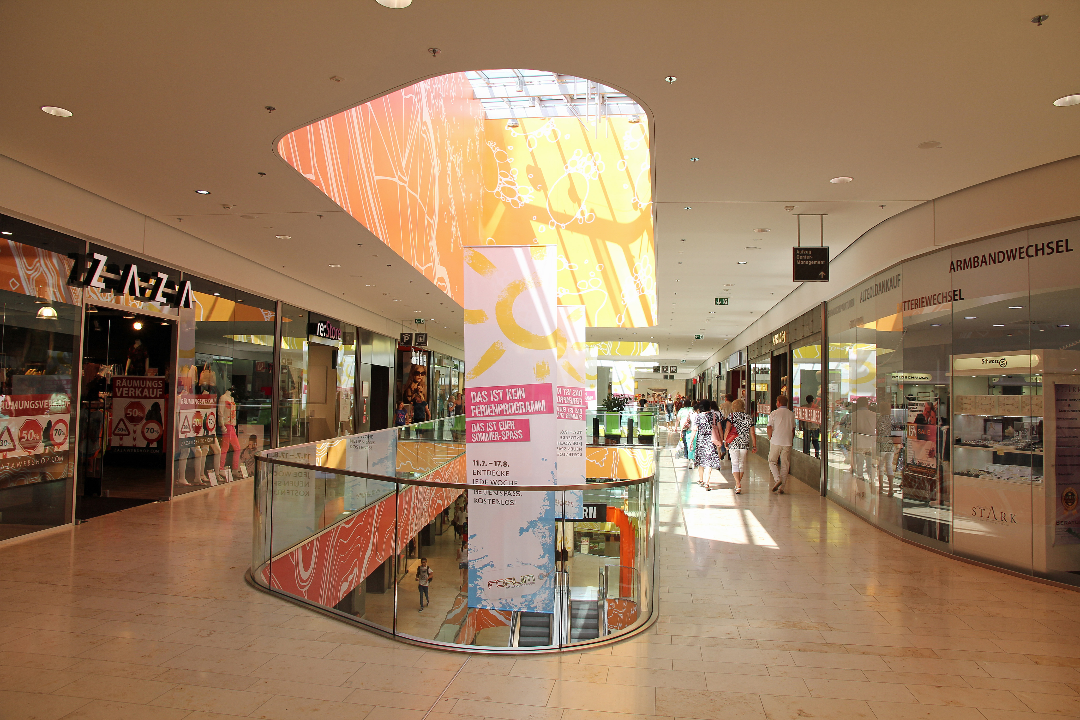 Forum Mittelrhein in Koblenz